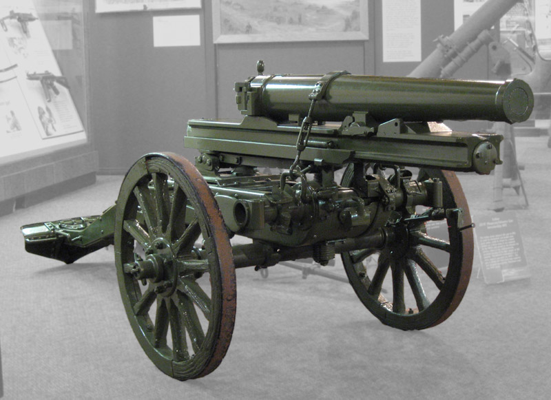 Italian Canone 65/17 modello 13 on display at the US Army Ordnance Museum in Aberdeen. The picture taken May 7, 2007.